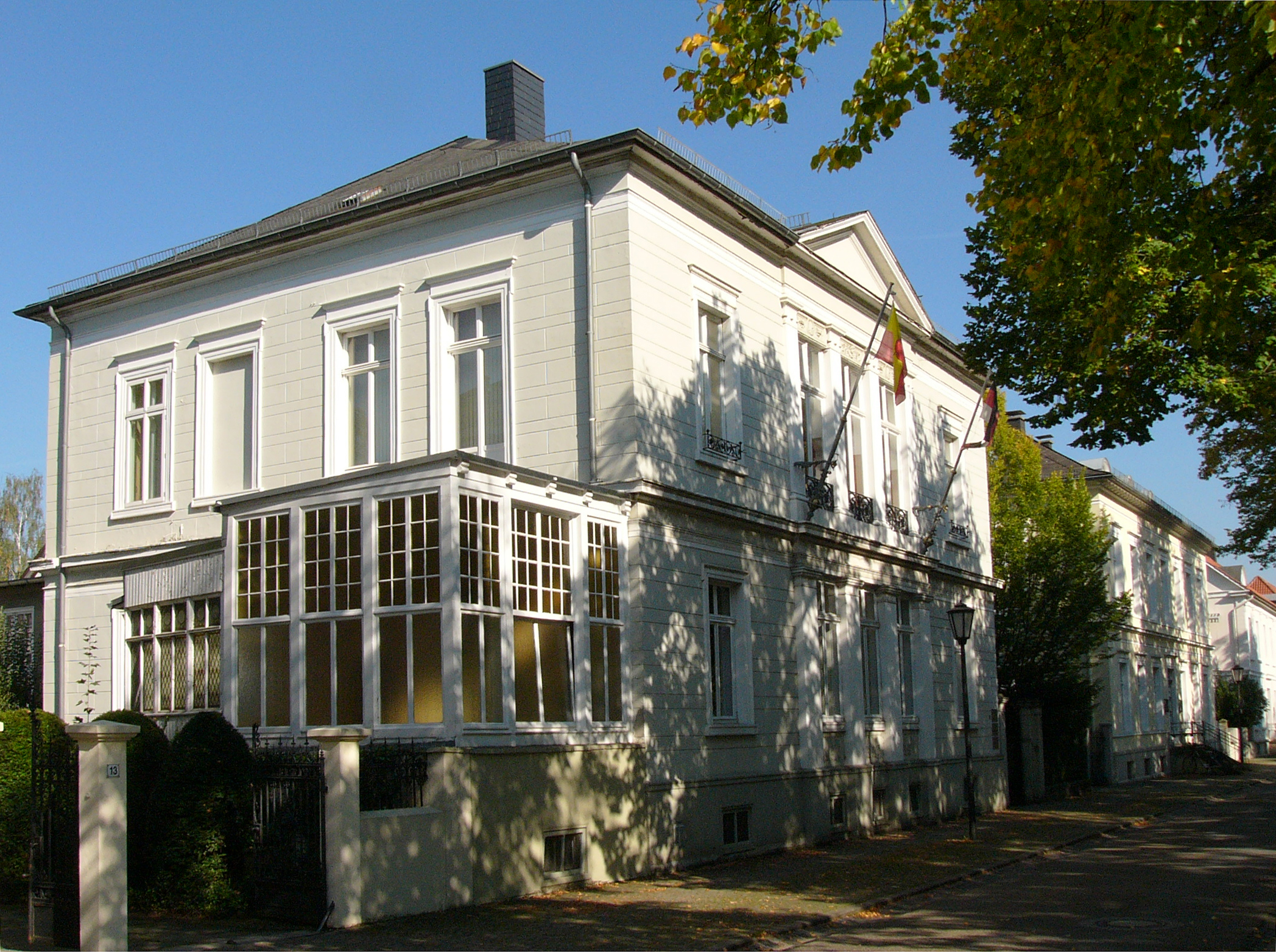 House "Verein Ressource" in Detmold, Germany